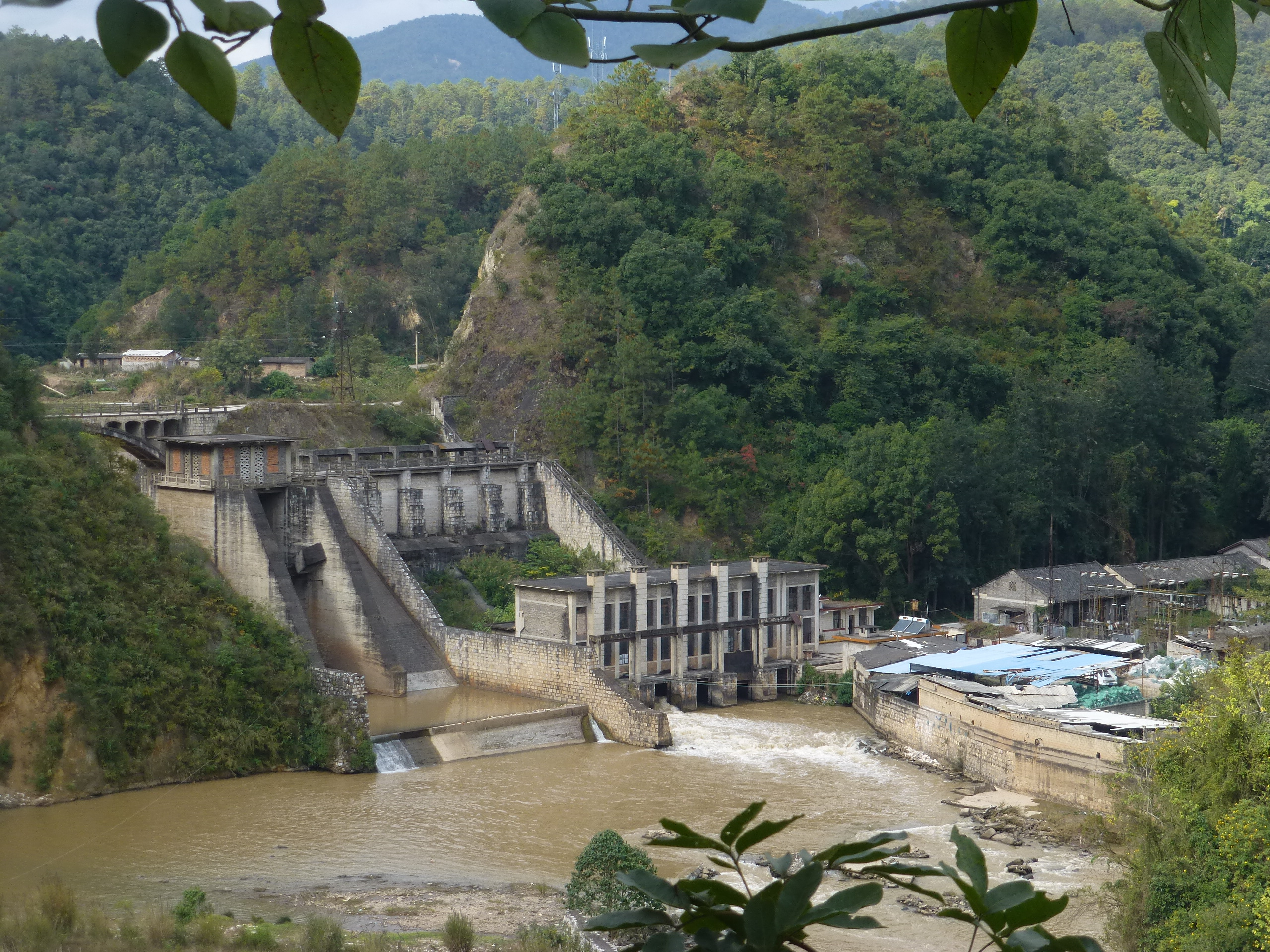 The Mabozi Dam on the Qu River (Qujiang) in Tonghai County, near its border with Jianhsui County.